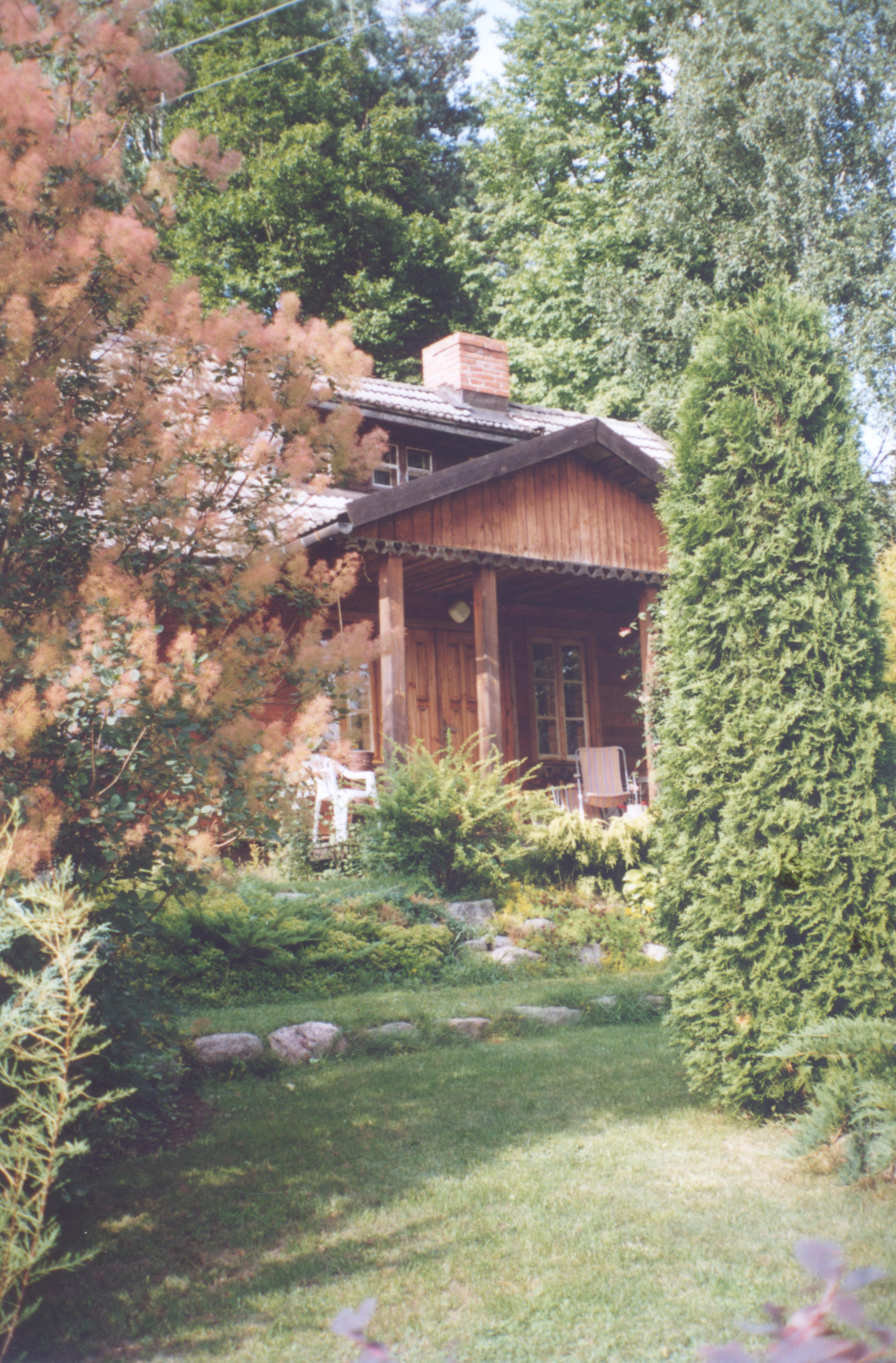 Wooden country house in the village of Tatarowce in Podlasie